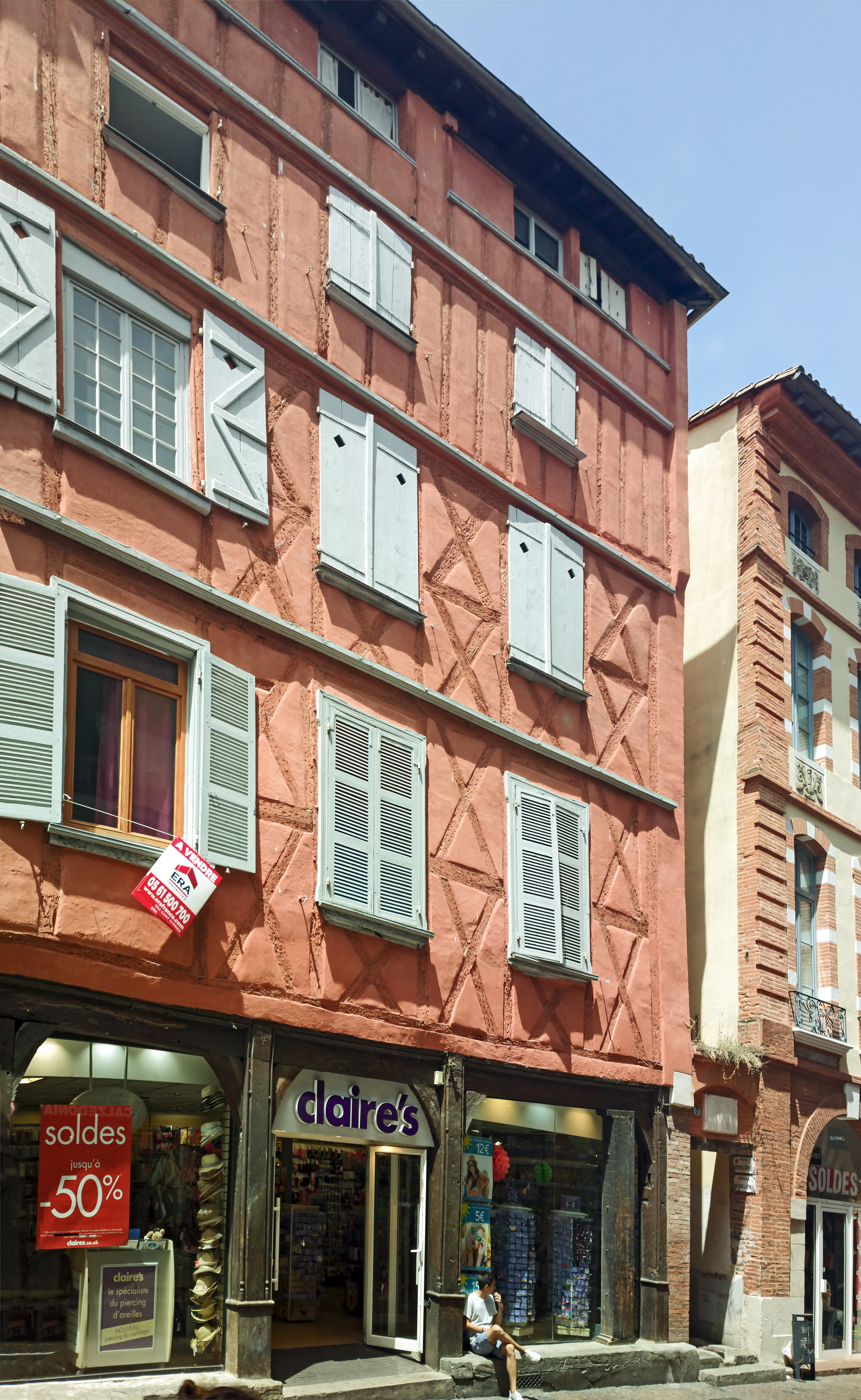 Birthplace of Hippolyte Prevost; 7, rue Saint-Romein Toulouse.